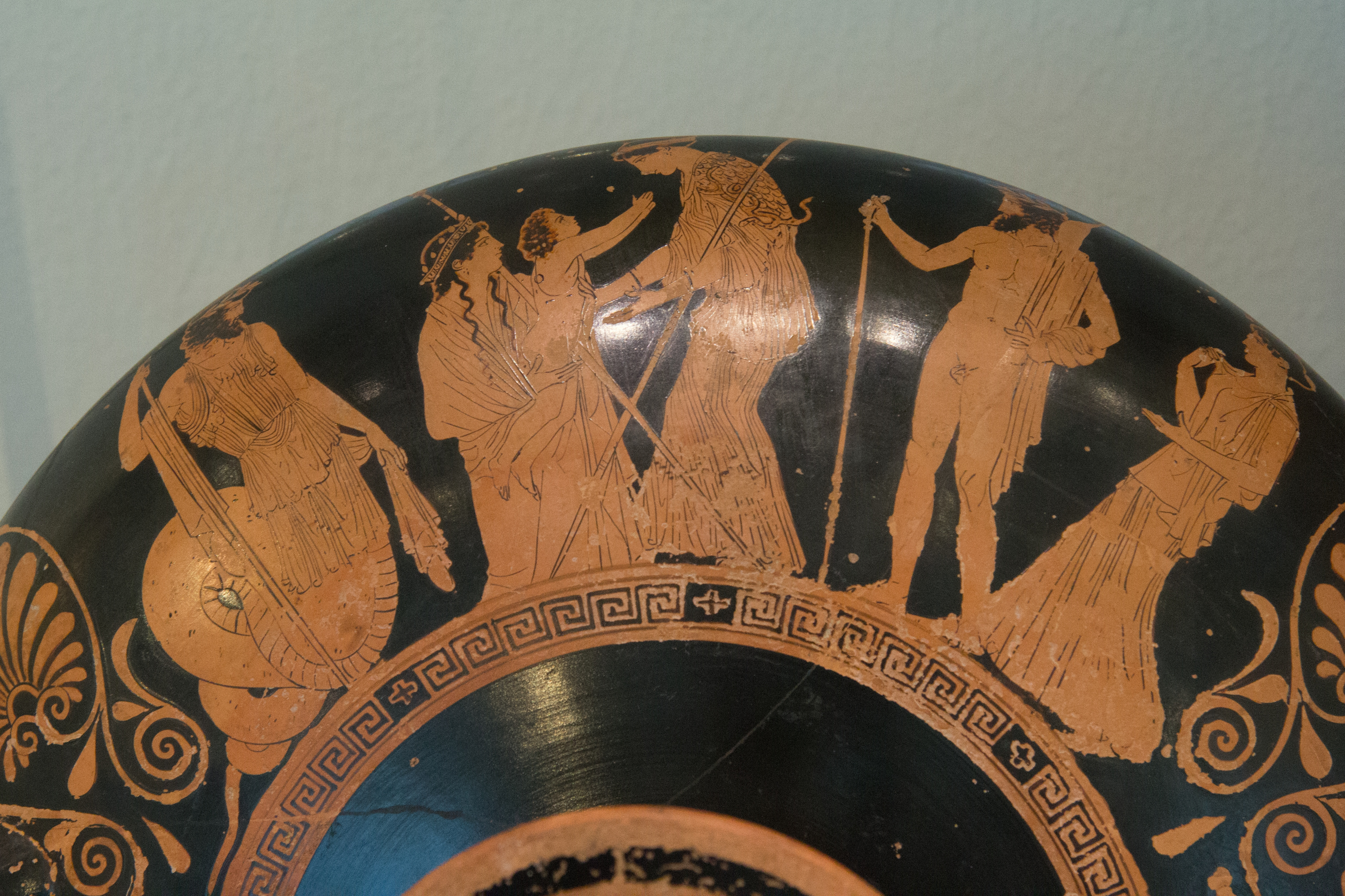 Attic red-figure kylix from Tarquinia (Italy), 440-430 BC. Birth of Erichthonios. Antikensammlung Berlin, Altes Museum, F 2537.